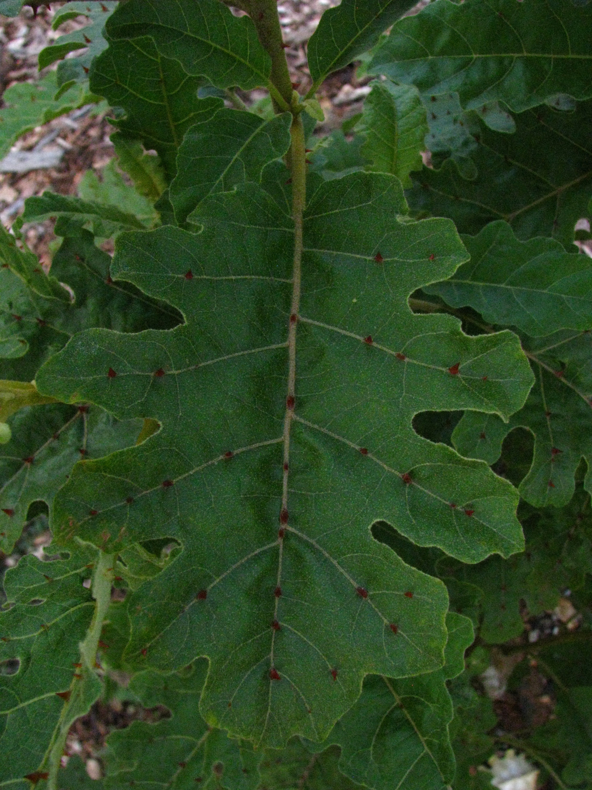 Pōpolo kū mai Solanaceae Endemic to the Hawaiian Islands Endangered Oʻahu (Cultivated)